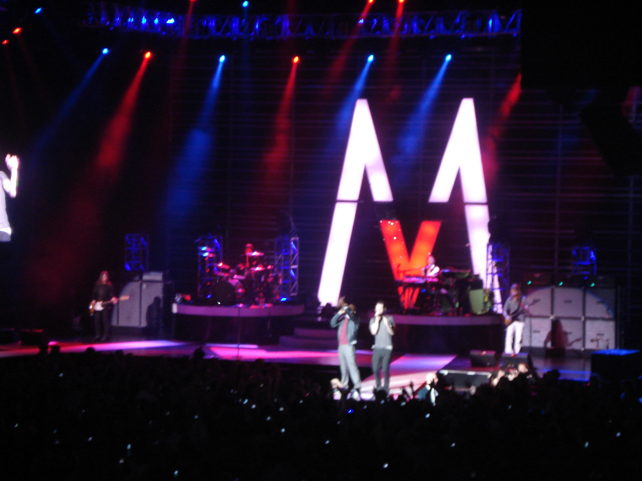 Kanye West performing with Maroon 5 at Madison Square Garden